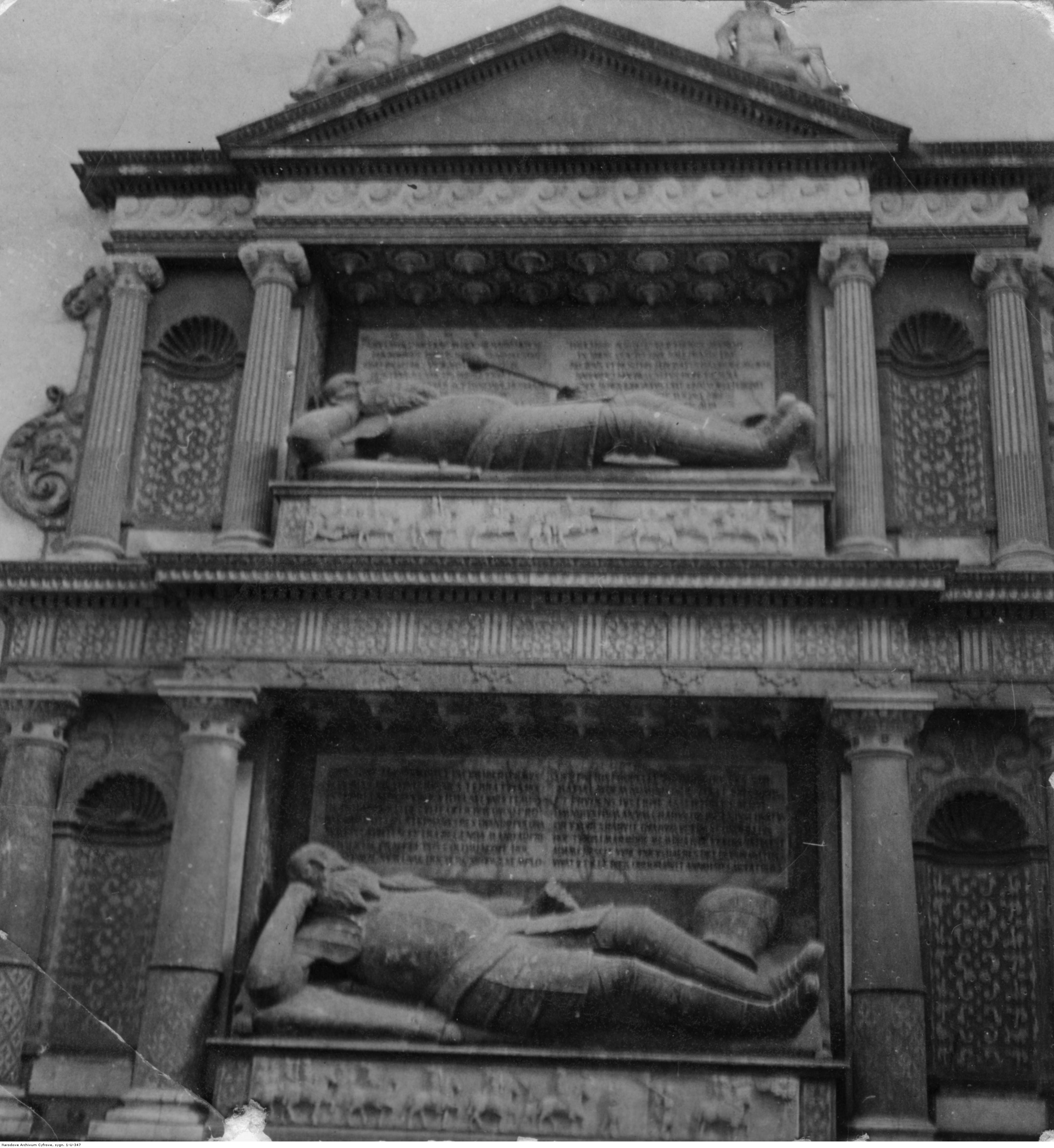 Graves (Tombs / Sarkofagues) of Sieniawski family at the castle church inside of Berezhany Castle in Berezhany (Brzezany) city in Ternopil region (historic East Galicia / Halychyna / Opillya) of western Ukraine. Sieniawski family owned the castle in Berezhany.